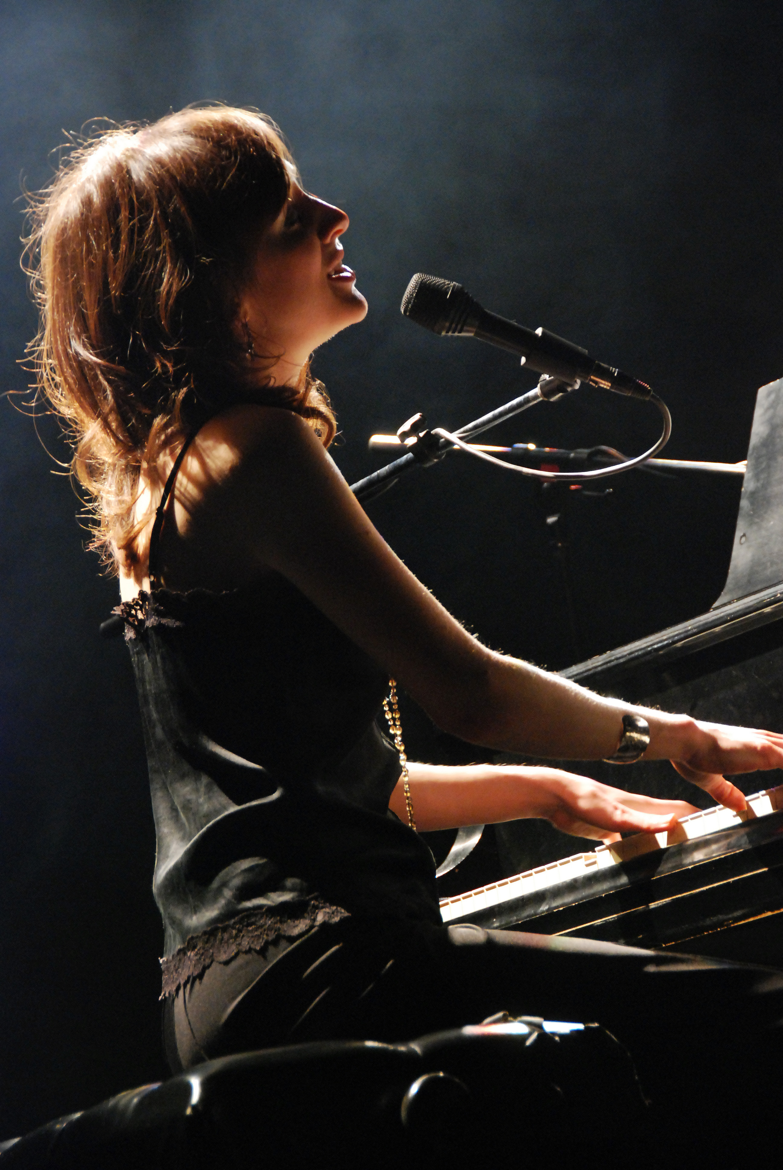 Sarah Slean headlining a solo concert at the Myer Horowitz Theatre in Edmonton, Alberta.